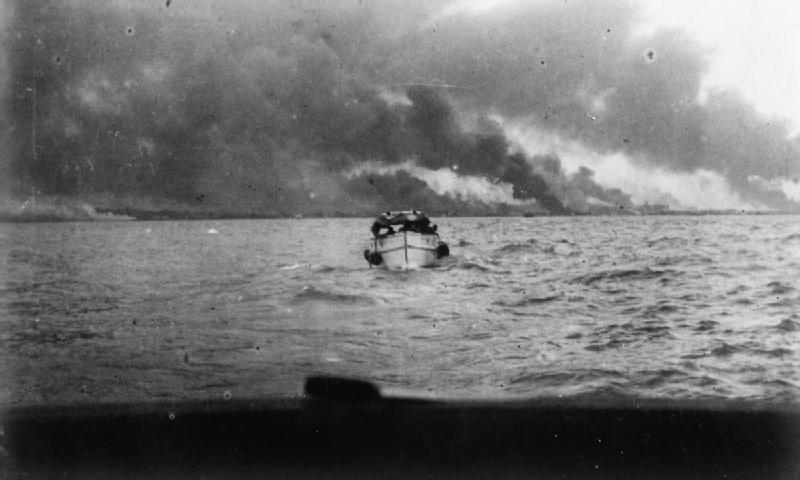 The British Army in Malaya 1942 A launch returning from an island in Keppel Harbour at Singapore after Royal Engineers had set fire to oil storage tanks there, January 1942.